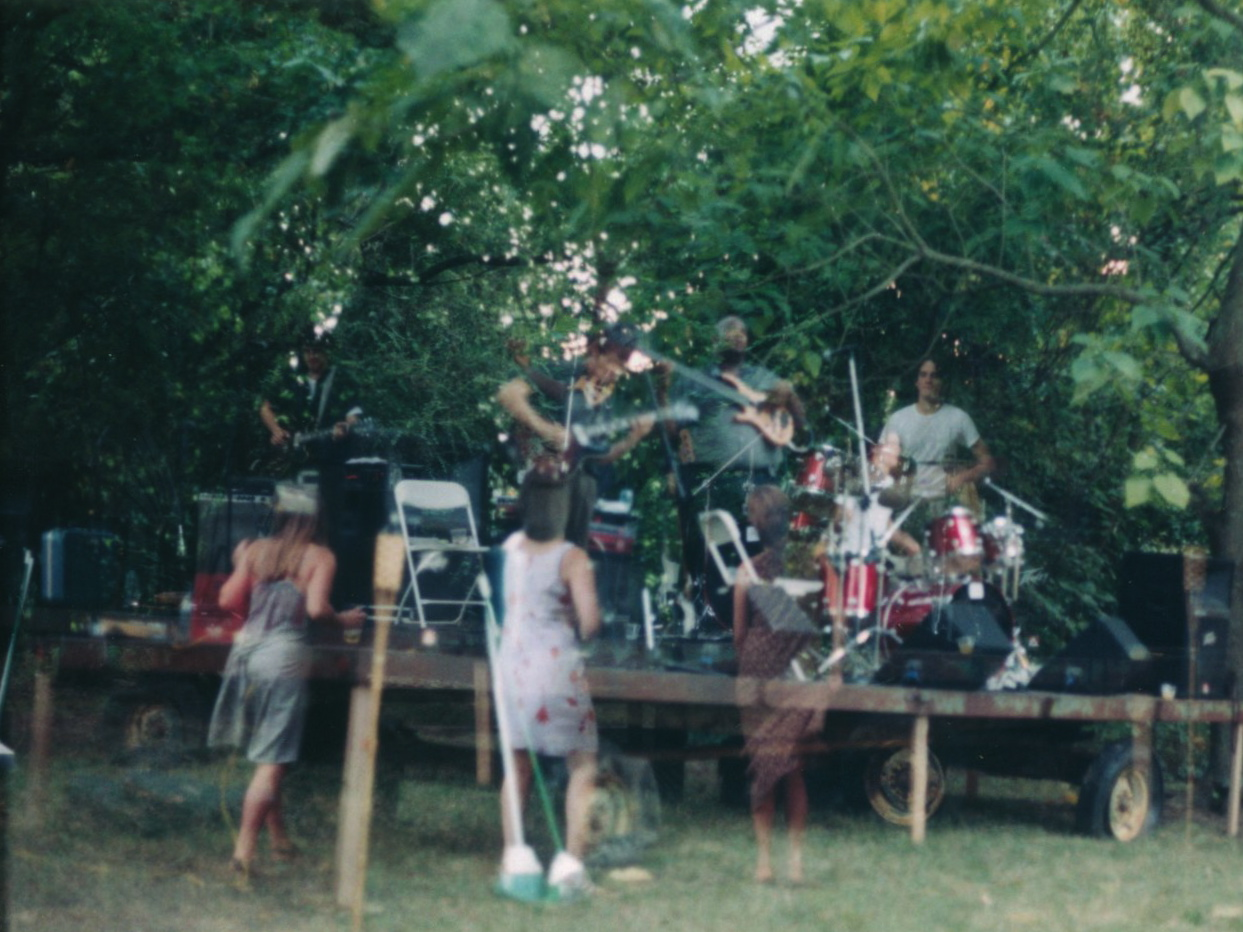 Double exposure image of North Mississippi Allstars performing at a wedding ( "Kudzu" Dave and Stevi Woolworth) at a working plantation in the Mississippi Delta near Gunnison, Mississippi in 1999.